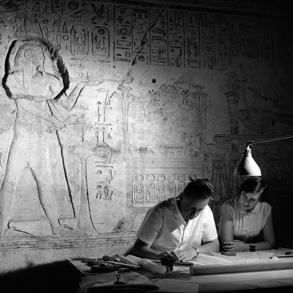 Geneva architect, Jean Jacquet, a Unesco expert, makes an architectural survey of the Great Temple of Rameses II ( 1290 - 1223 B.C.). It is hoped that this temple will be preserved in its entirety by the construction of a dam.